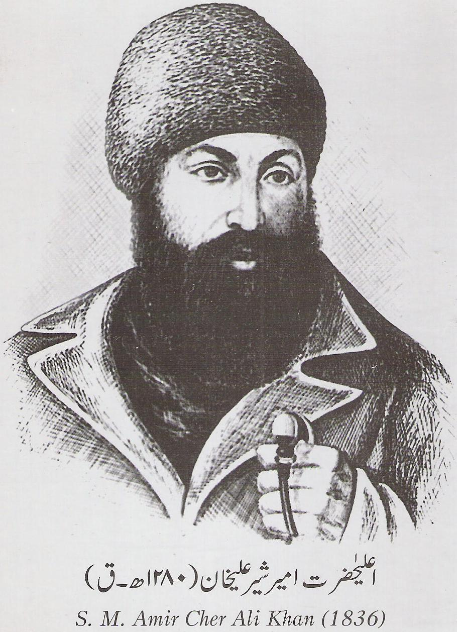 Amir Sher Ali Khan was an Afghan King